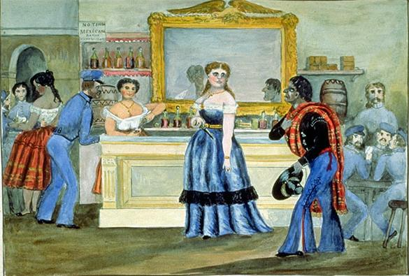 The Great Western as Landlady Depiction of Sarah Borginnes, also known as "The Great Western" or the "Heroine of Fort Brown, as the landlady of one of several hotel/restaurants she operated in Northern Mexico during Zachary Talyor's campaign during the Mexican-American War.